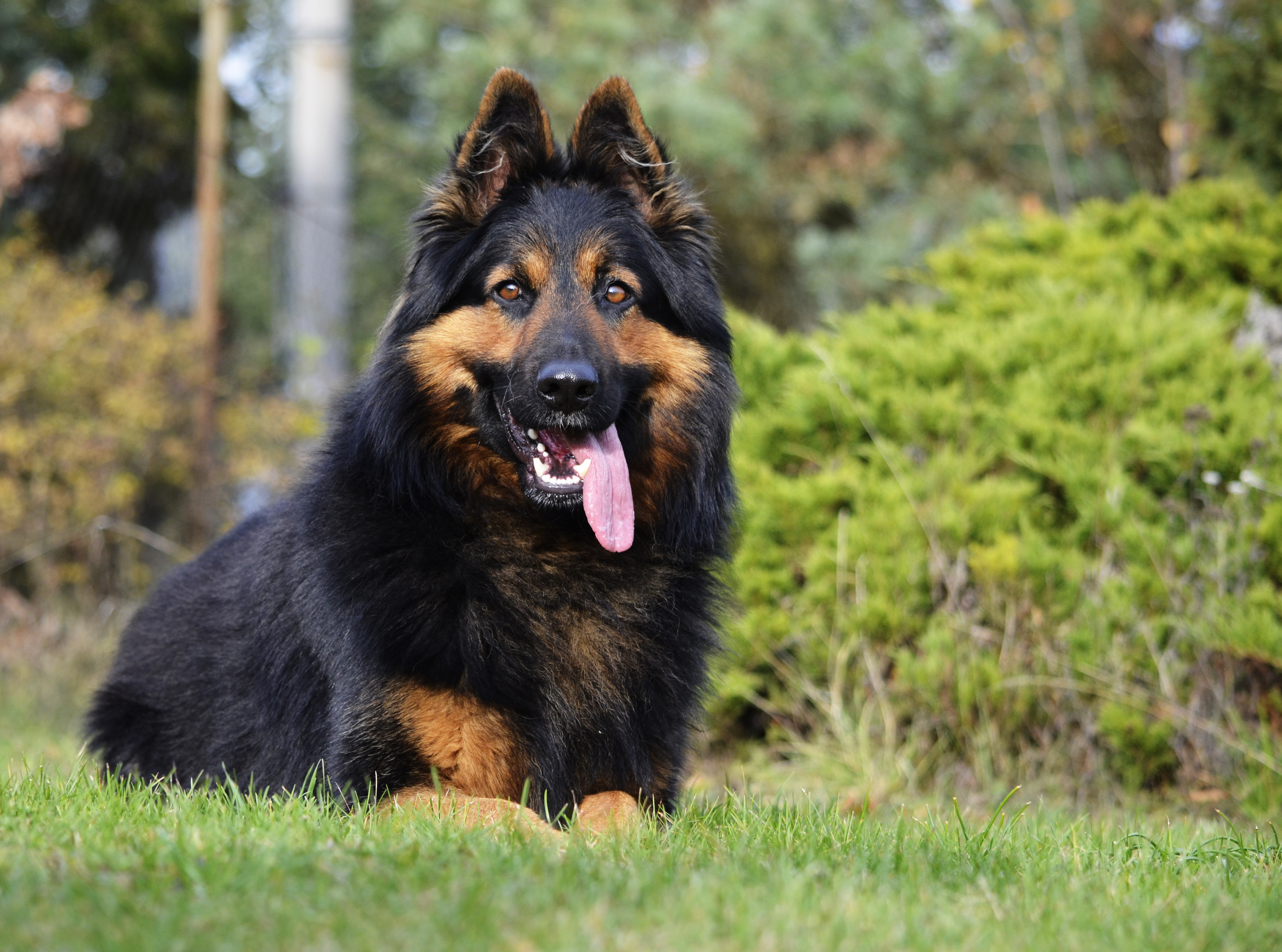 Chodský pes Caezare Chucky od Malého Kosíře